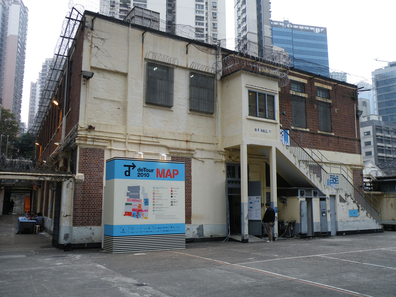 Victoria Prison hall F